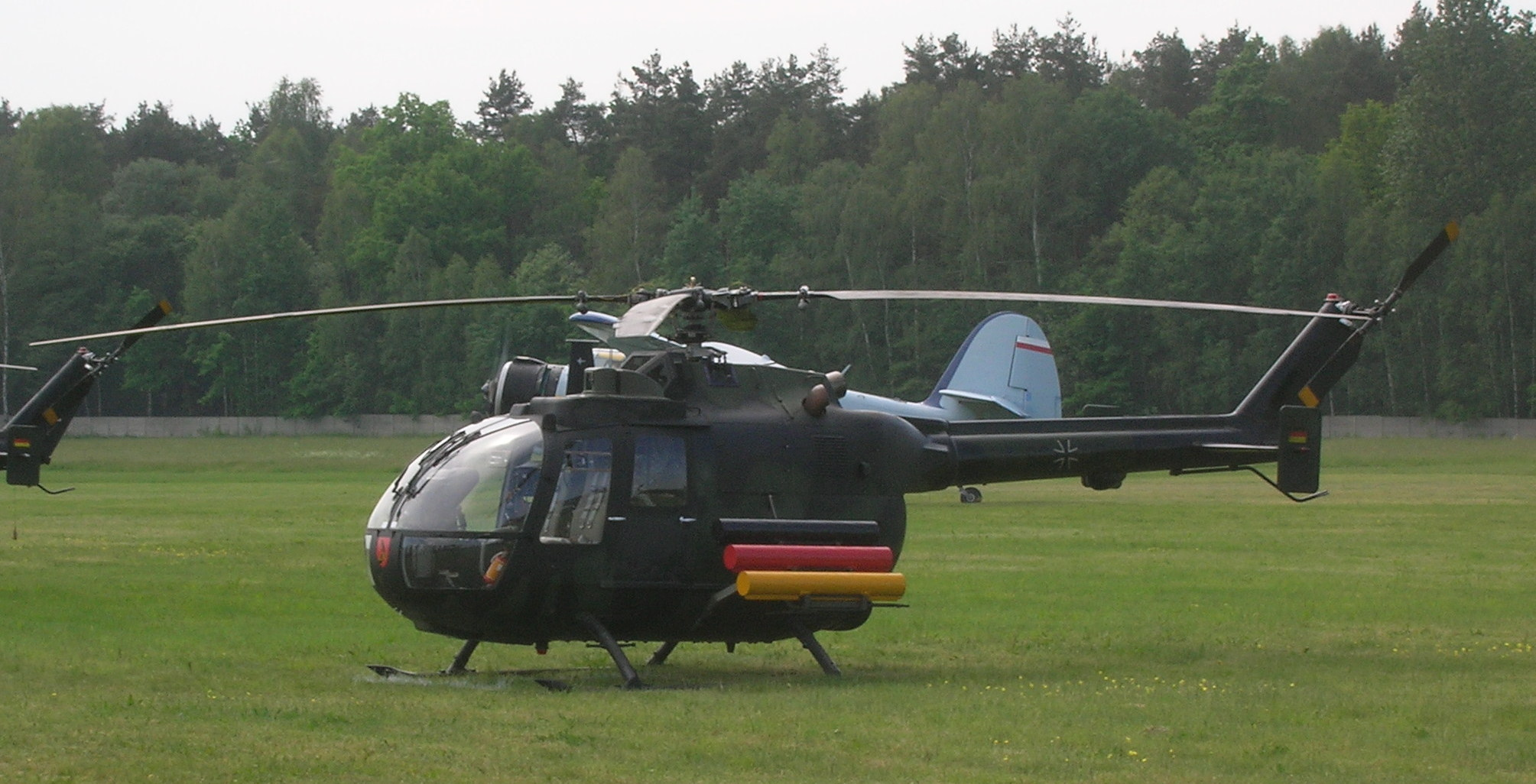 Copyright © 2005 Voytek S Bölkow Bo 105 At the nose of the Bo-105 the coat of arms of the German Army Aviatiors School is seen. The helicopter is based at the Heeresflugplatz Celle (Celle Air Base).